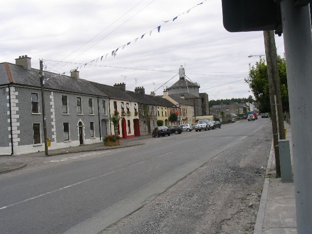 Stradbally